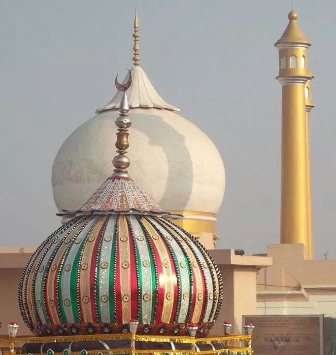 this photo has been taken to show the artistic beauty of two beautiful domes. one is of the historic Bada Tazia and the others is of Heritage shrine of Hazrat Abbas in Bilgram